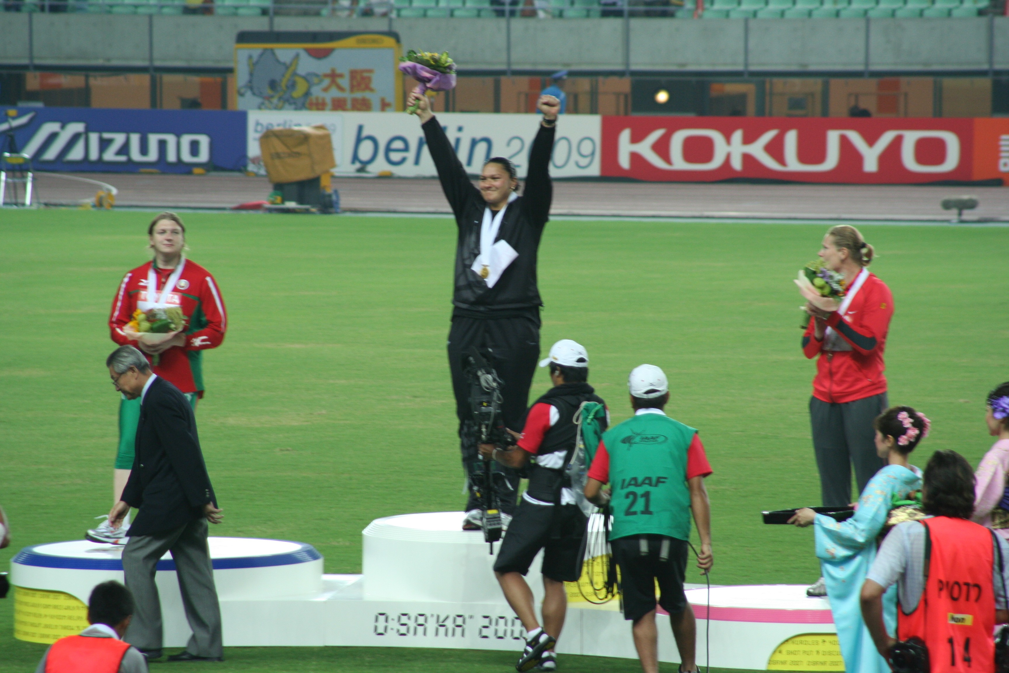 World Athletics Championships 2007 in Osaka - Victory Ceremony for the Women's Shot Put - Winner Valerie Vili (Middle) and the silver and bronze winners